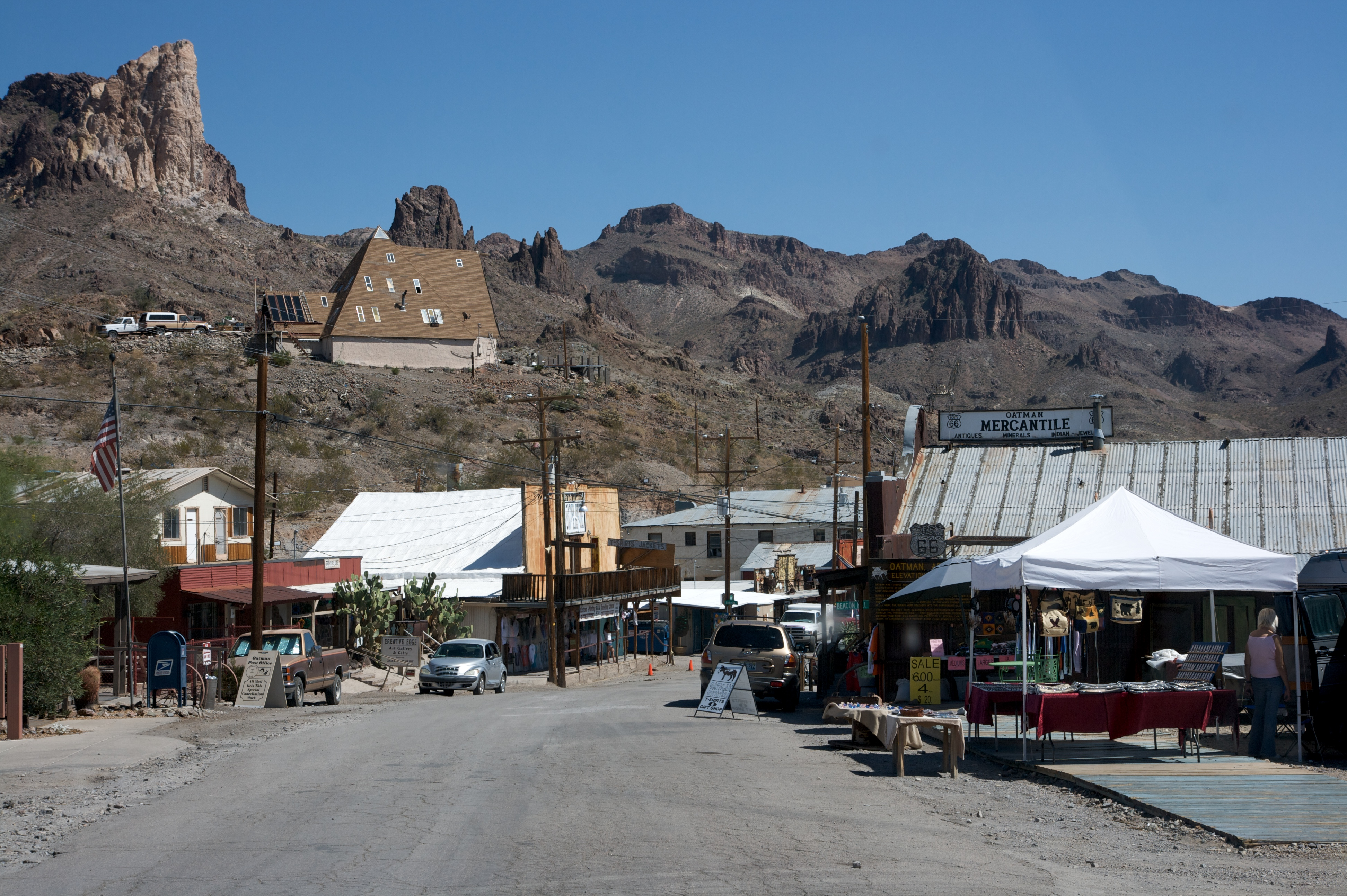 Street scenery in Oatman, Arizona, USA